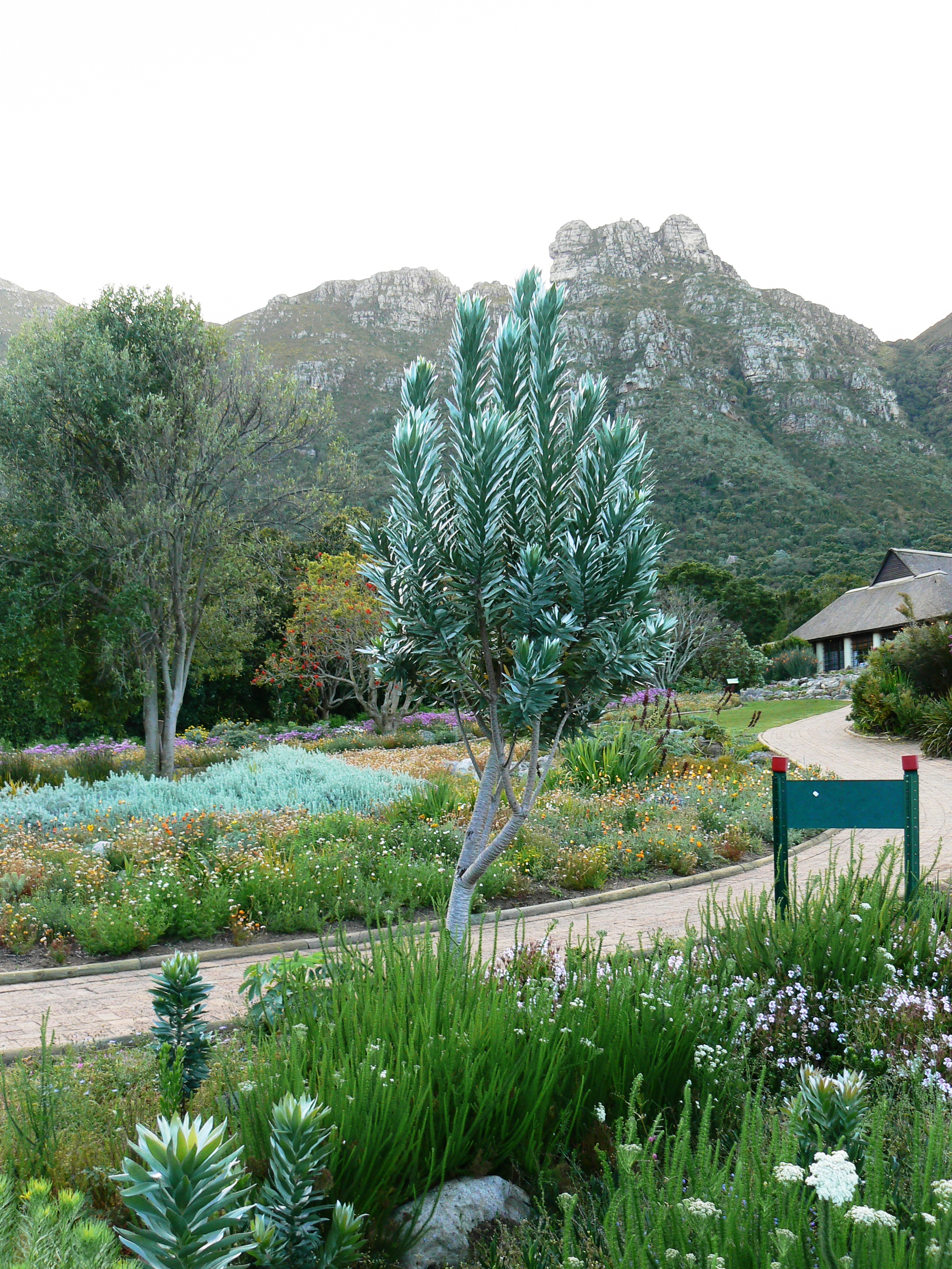 Leucadendron argenteum or Silvertree. Cape Town.